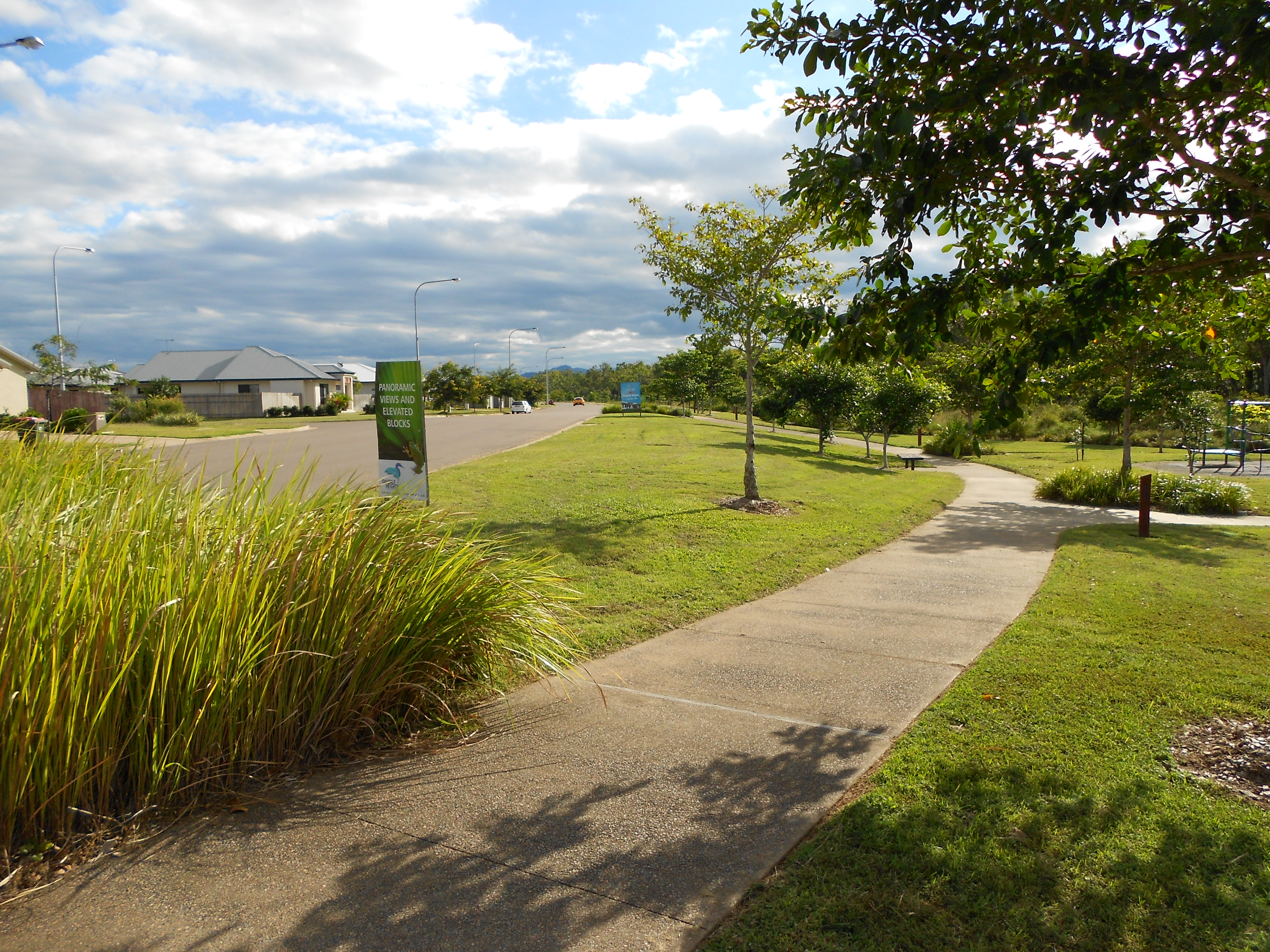 Modern residential housing development in Deeragun, Townsville with walkway along Saunders Creek nature strip.